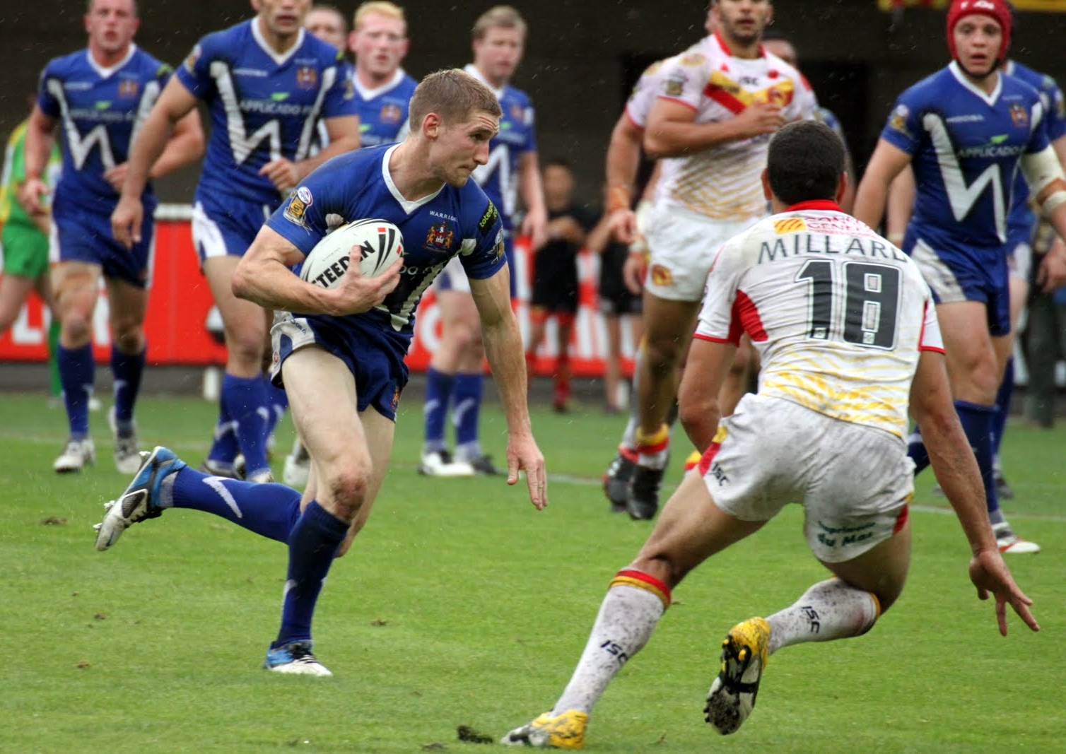 Wigan Warriors at the Stade Yves-du-Manoir in Montpellier, Sam Tomkins runs at Daryl Millard